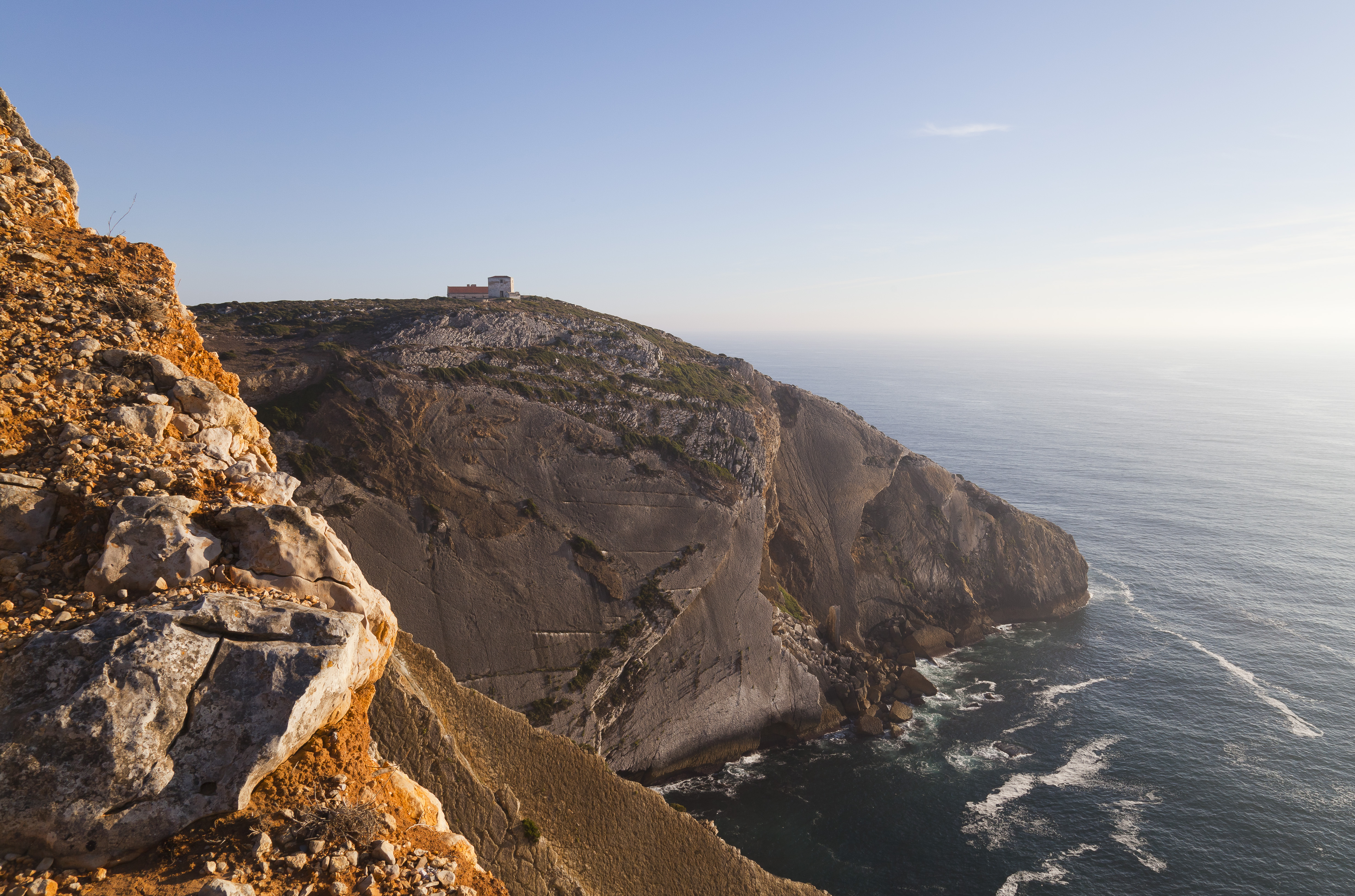 Cape Espichel, Portugal